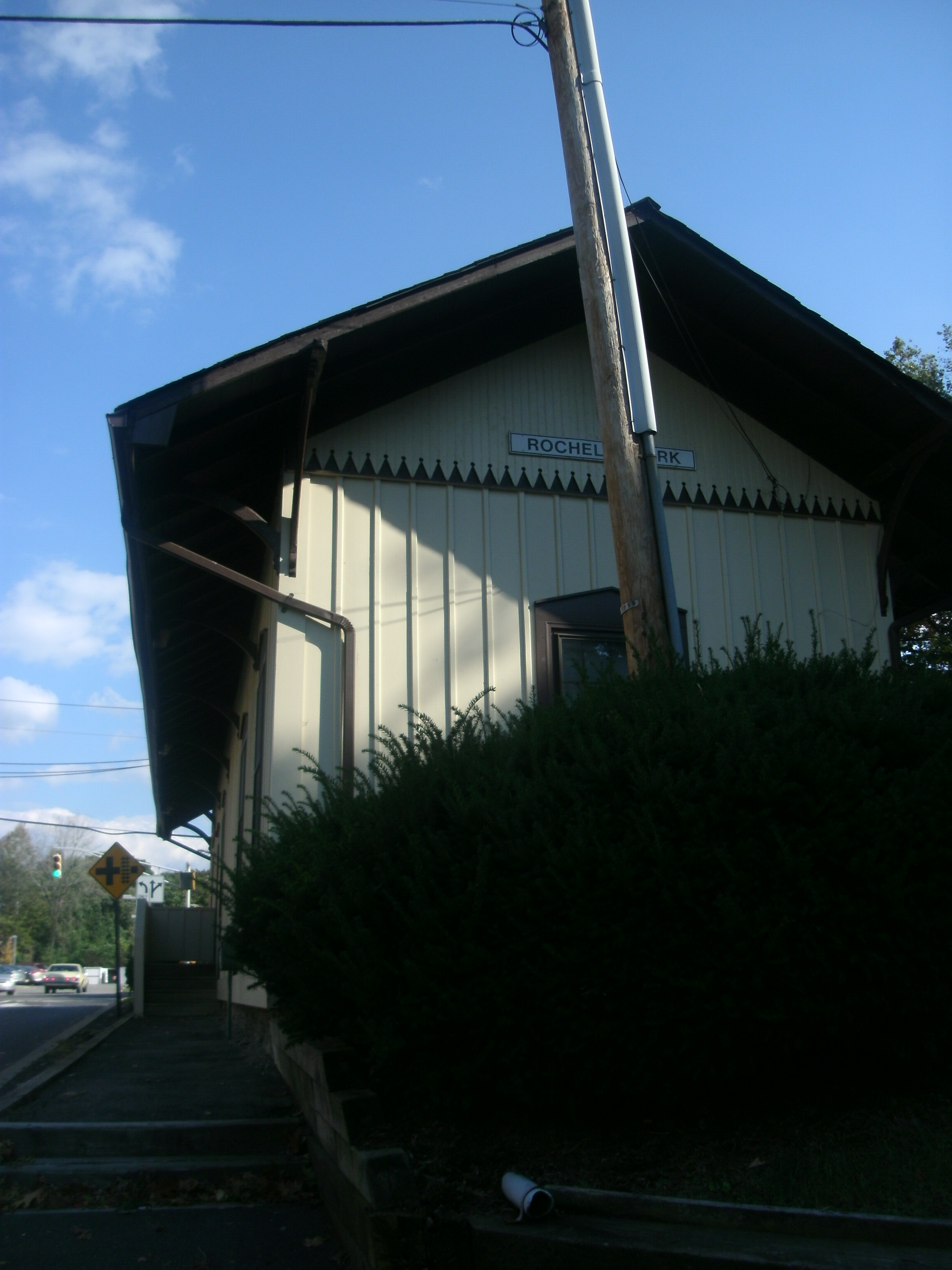 The former Rochelle Park station in Rochelle Park, New Jersey. The station depot was used by the New York, Susquehanna and Western Railroad until recently.